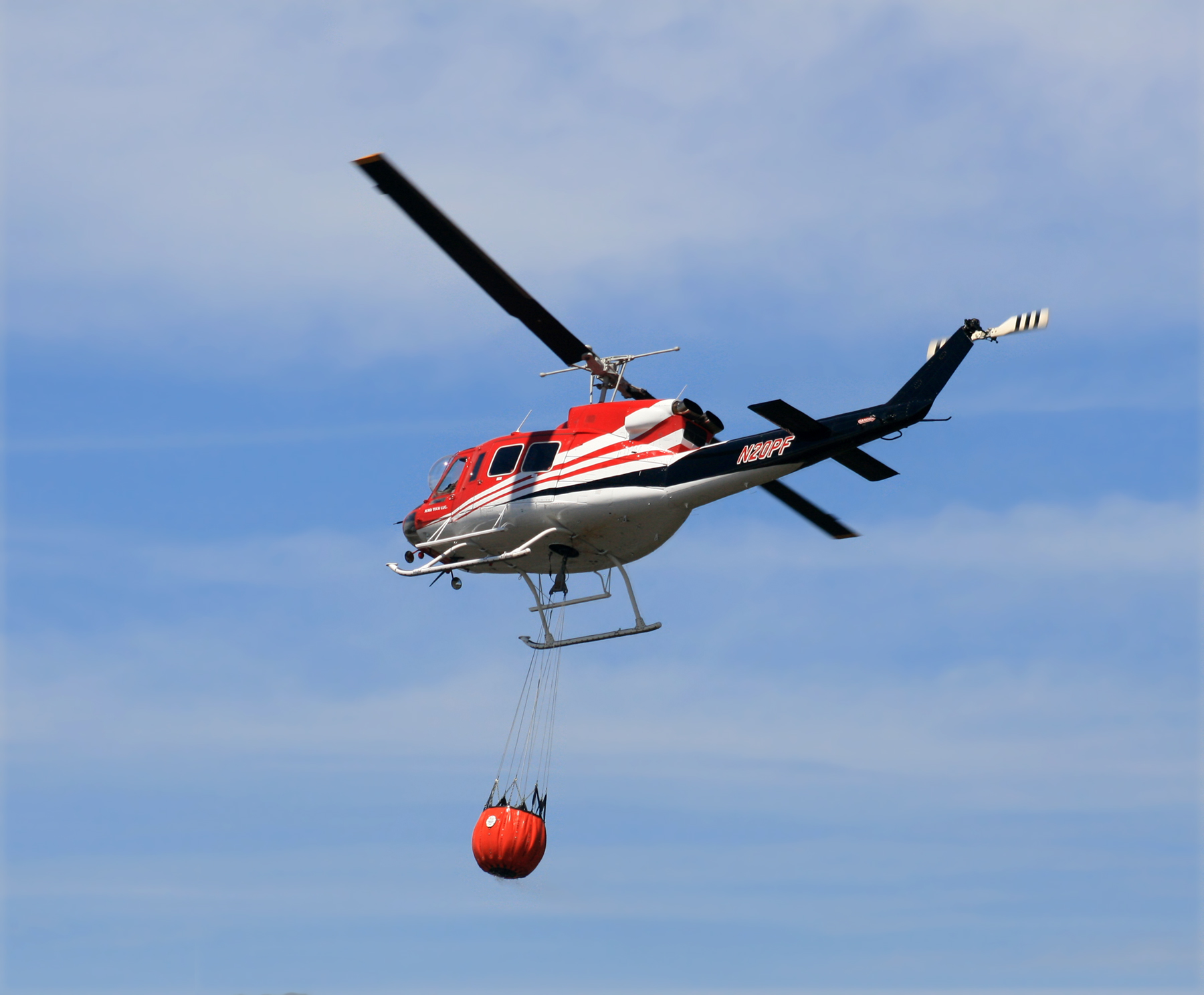 A fire helicopter N20PF with a helicopter bucket.